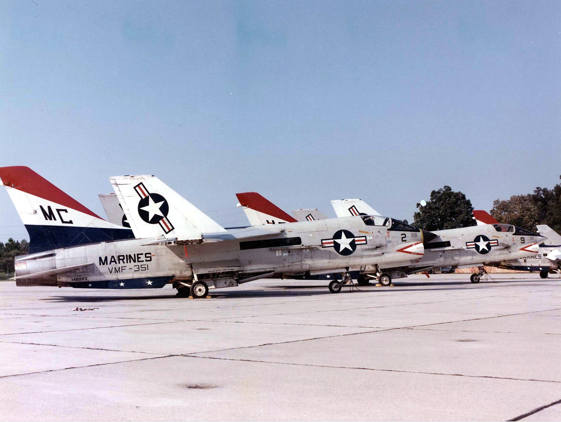 U.S. Marine Corps Reserve Vought F-8K Crusaders from Marine Fighter Squadron 351 (VMF-351). The squadron was based at Naval Air Station Atlanta, Georgia (USA) and flew the F-8 from 1965 to 1977.